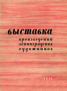 Cover of the catalog of Autumn Exhibition of works by Leningrad artists of 1956